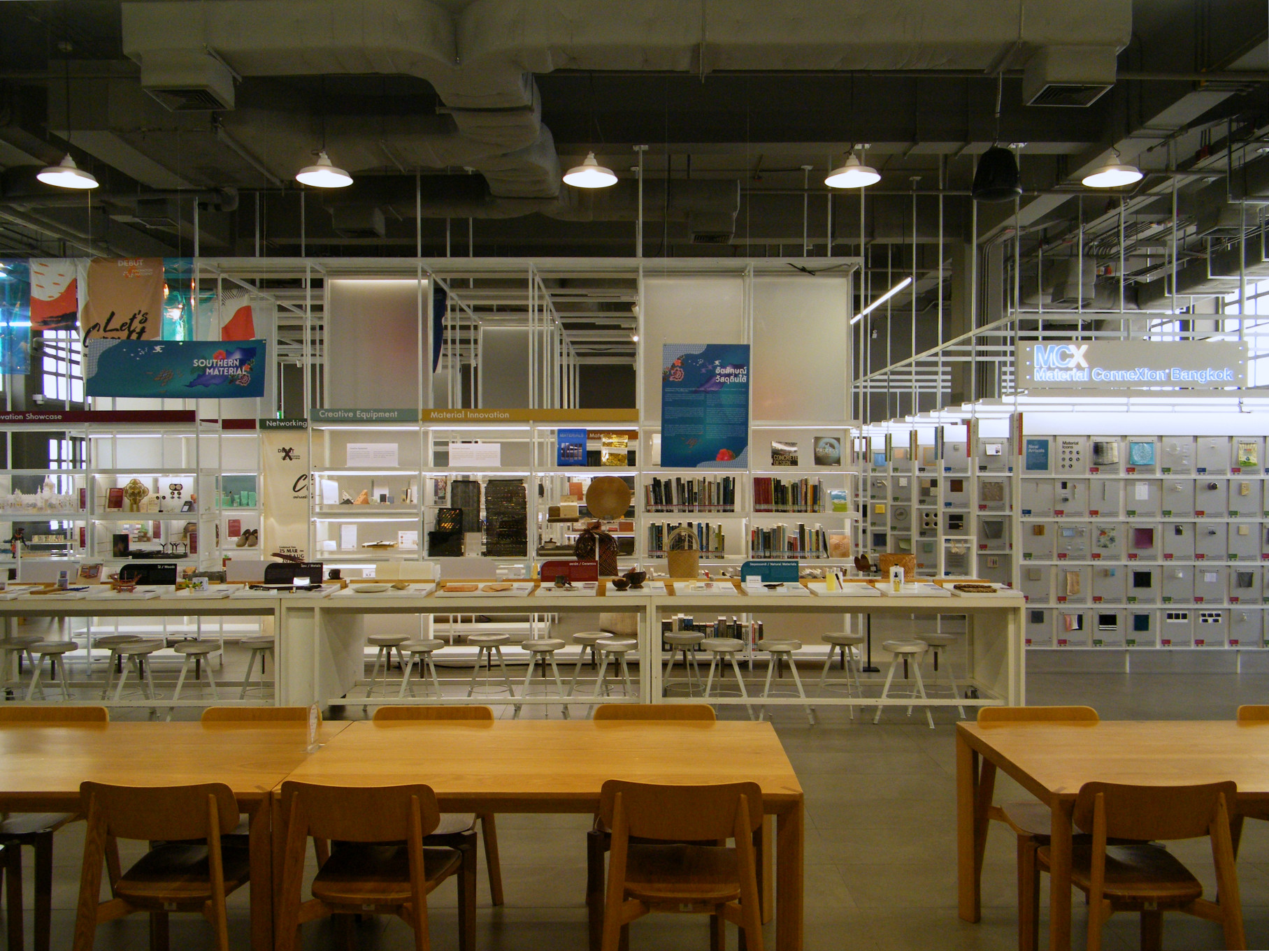 The Material and Design Innovation Center, a part of Thailand Creative and Design Center (TCDC) Bangkok, located at the second floor of the Grand Postal Building (backside); photographed from its front seating area, which you could see Material ConneXion Bangkok's material exhibition area on the right hand side.